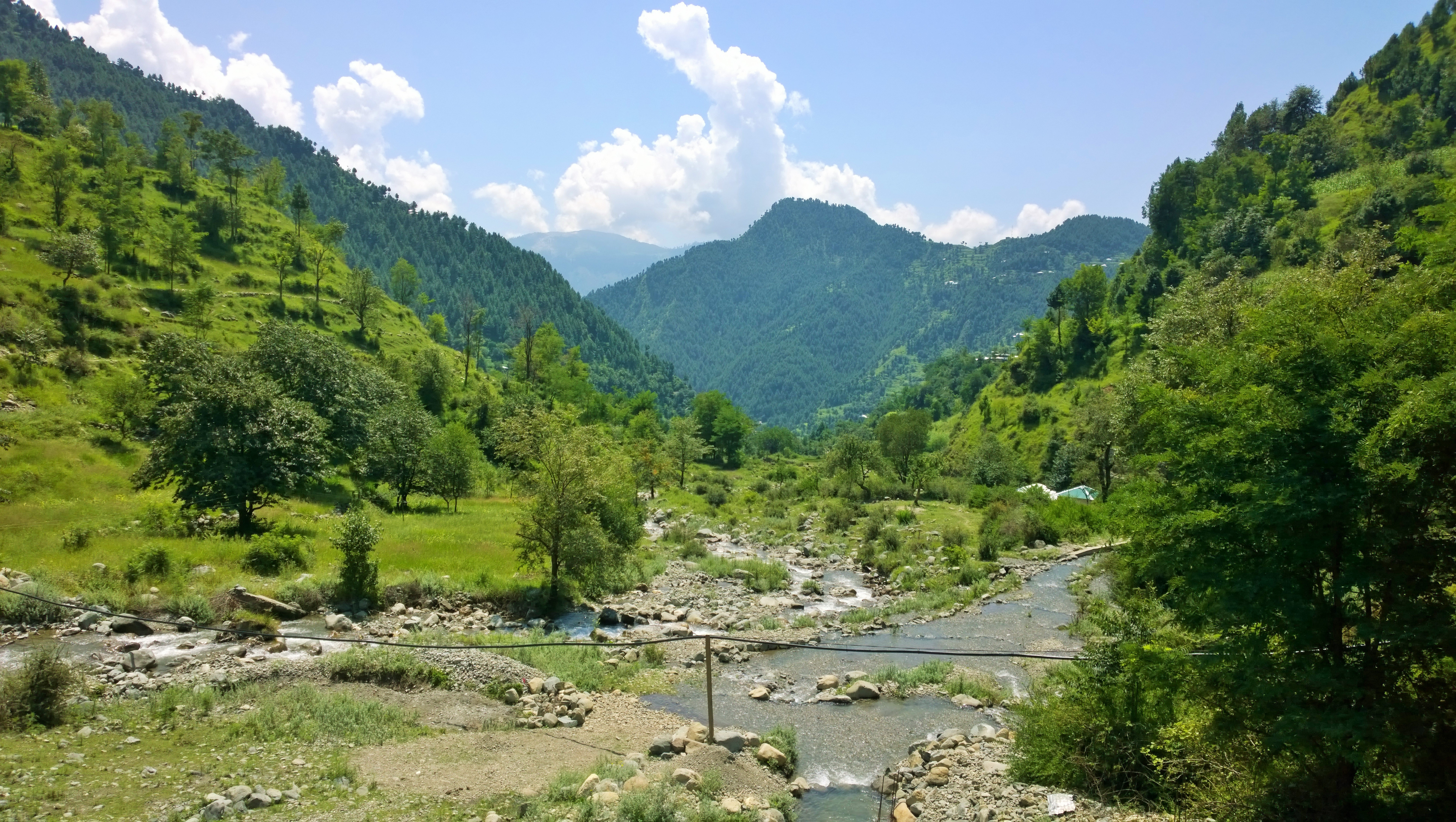 a town Allai in District Battagram KPK